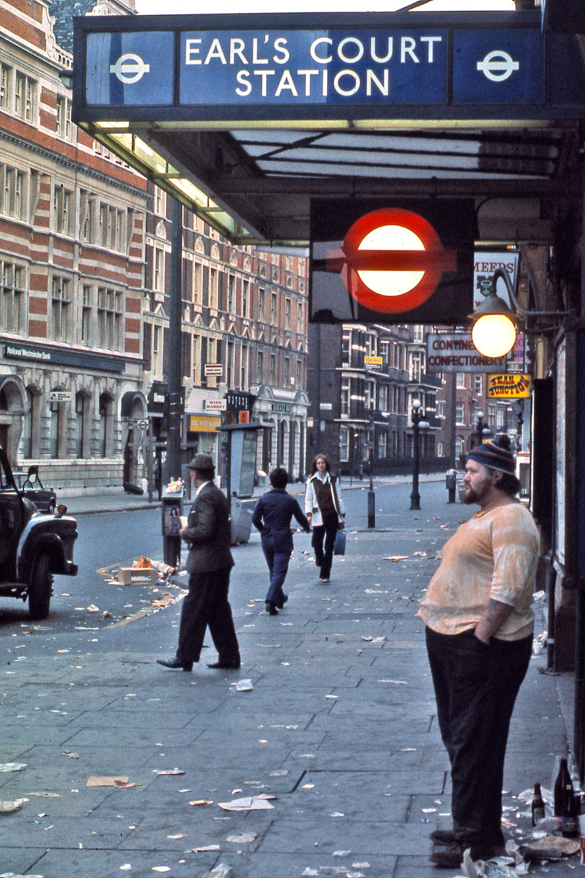 Street and pavement outside Earl's Court Station, London, England, showing people, litter on the pavement and part of a taxi, July 1973. The marquee of the station can also be seen. Other information Photo by George Garrigues